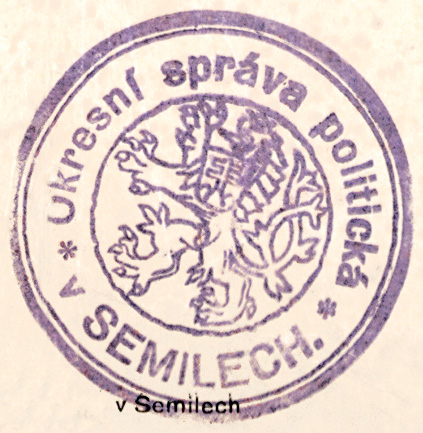 Rubber stamp of Semily District government (Czech Republic)